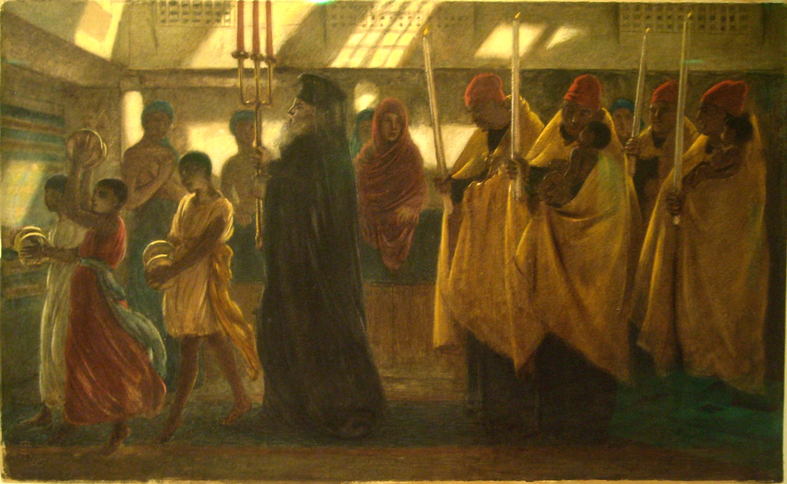 "Coptic Baptismal Procession" (1865) by Simeon Solomon. Watercolour, bodycolour and gum Arabic on paper. An illustration for "Letters from Egypt" by Lady Duff Gordon it was not drawn from life but based on research and imagination. On display at The Higgins museum and gallery, Bedford. In addition to the usual perspective correction wit the GIMP, I have airbrushed out a light reflection in the extreme top right corner.